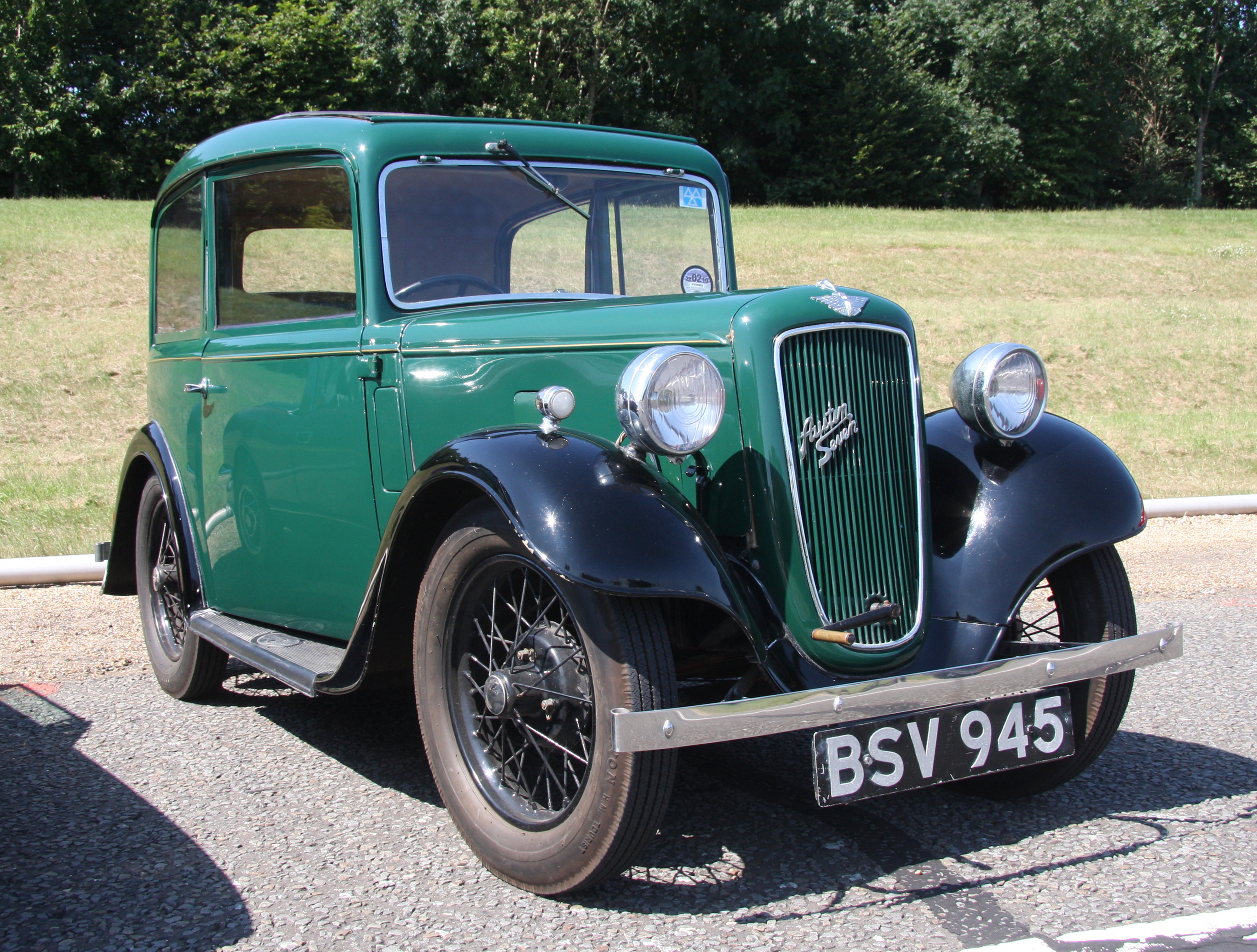 1935 Austin Seven reg April 1935, 750 cc